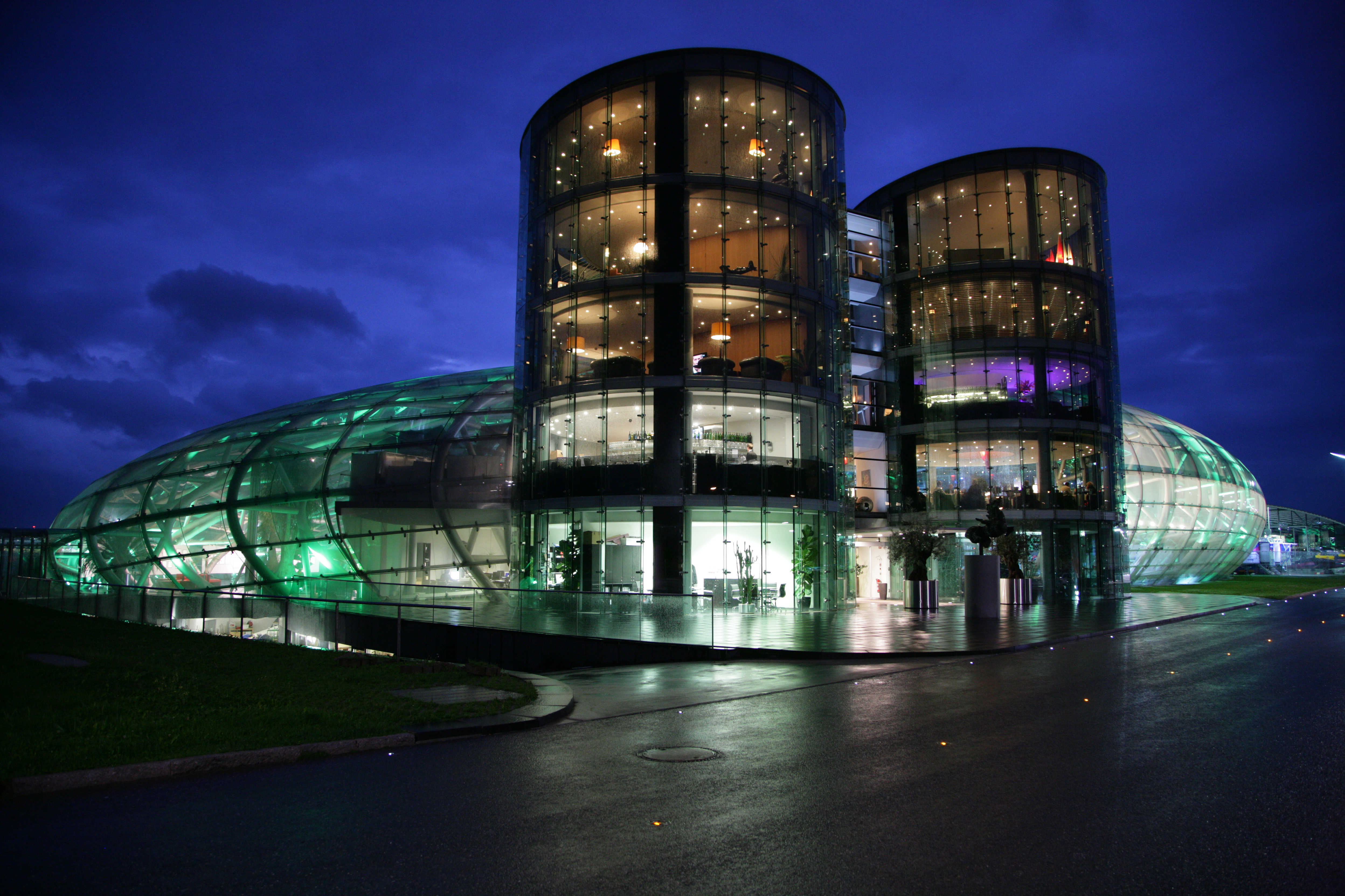 Red Bull Hangar-7 external view at night.